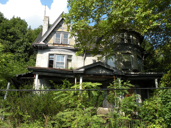 Picture of the National Negro Opera Company House located at 7101 Apple Street in the Homewood West neighborhood of Pittsburgh, Pennsylvania, on August 7, 2010. This Queen Anne Style house was built in the late 1800s, and was the home of Mary Cardwell Dawson, who founded the National Negro Opera Company in 1941, the first African American opera company in the United States. The house is on the List of City of Pittsburgh historic designations.